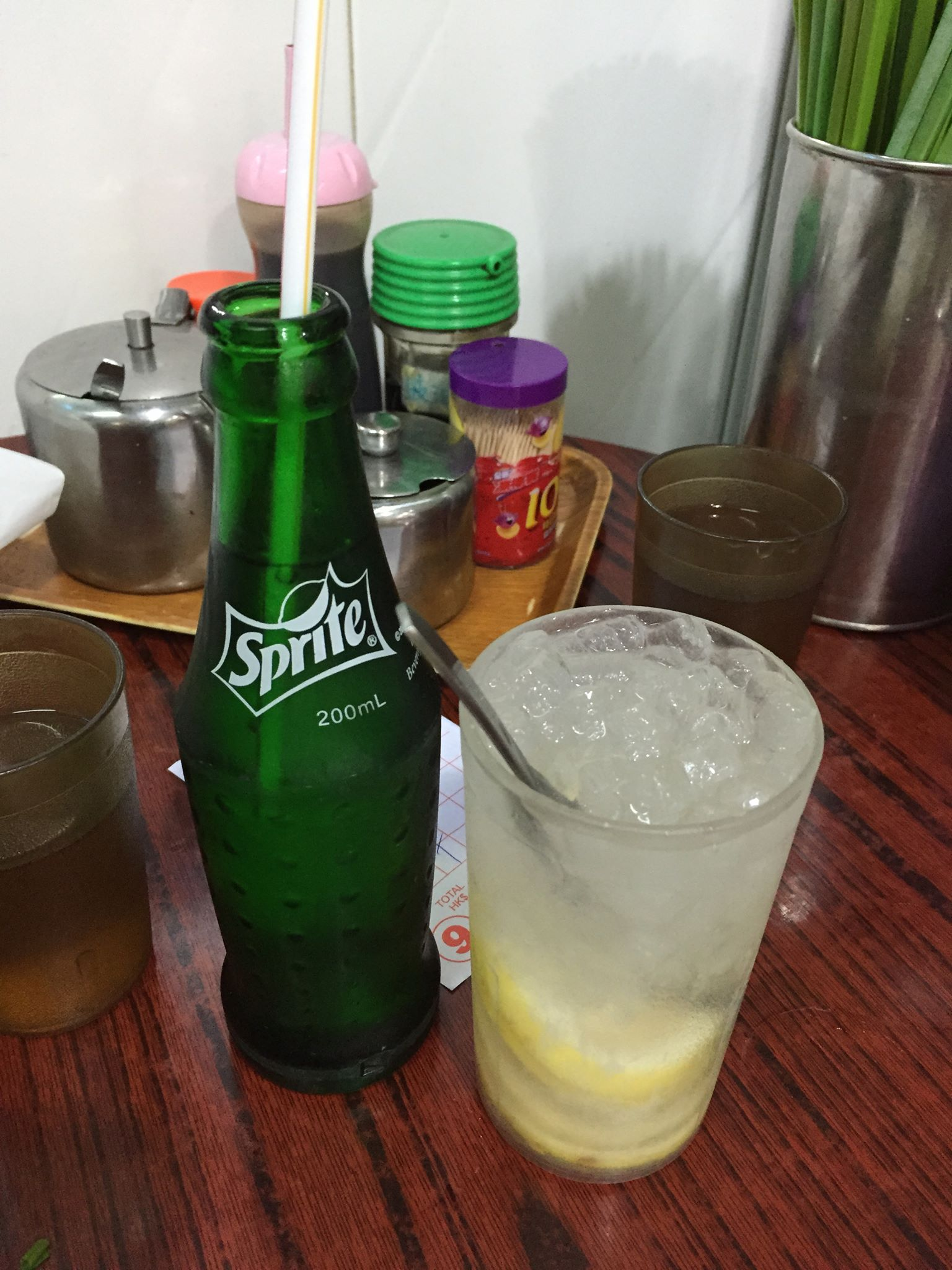 Salted Lemon 7-up